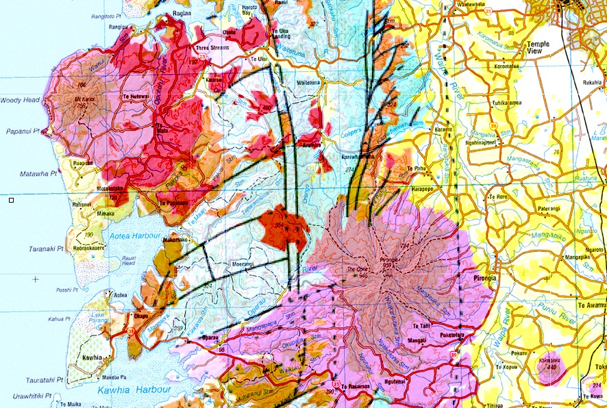 geology map overlain on topographical map